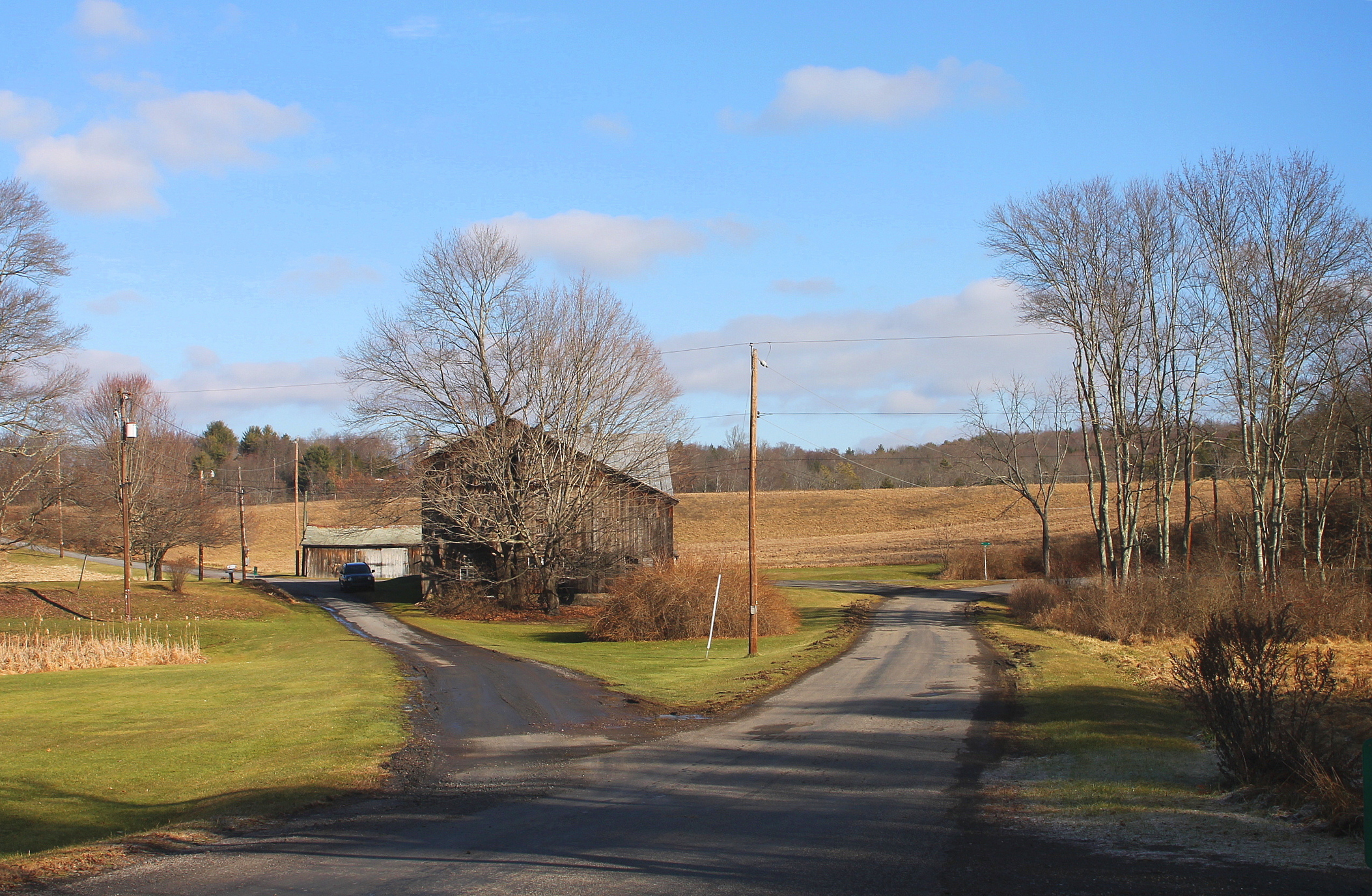 View of southeastern Fishing Creek Township, Columbia County, Pennsylvania